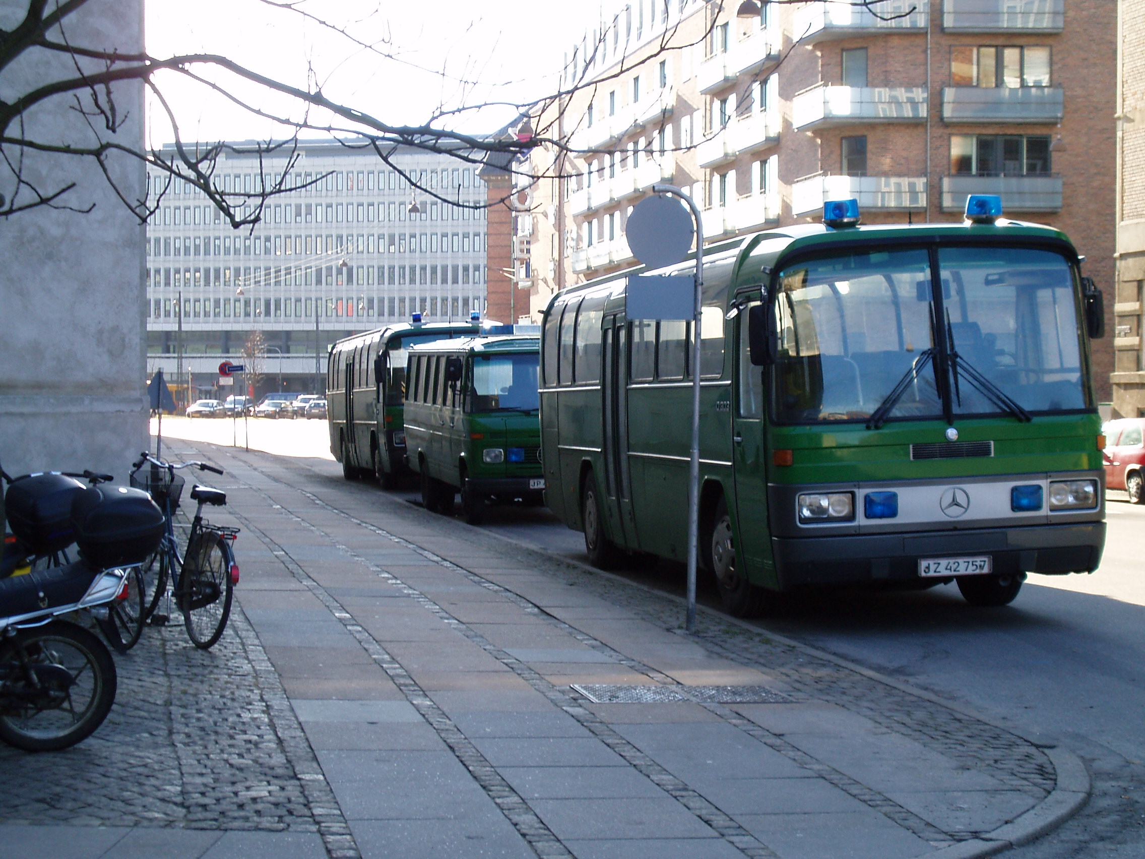 Police busses belonging to the Copenhagen Police Department photographed at the Copenhagen police headquarters. :The busses are primarily used for either giving shelter to residents at large fires or transporting arrested persons from the scene. Only rarely used for transporting police units to the scene.